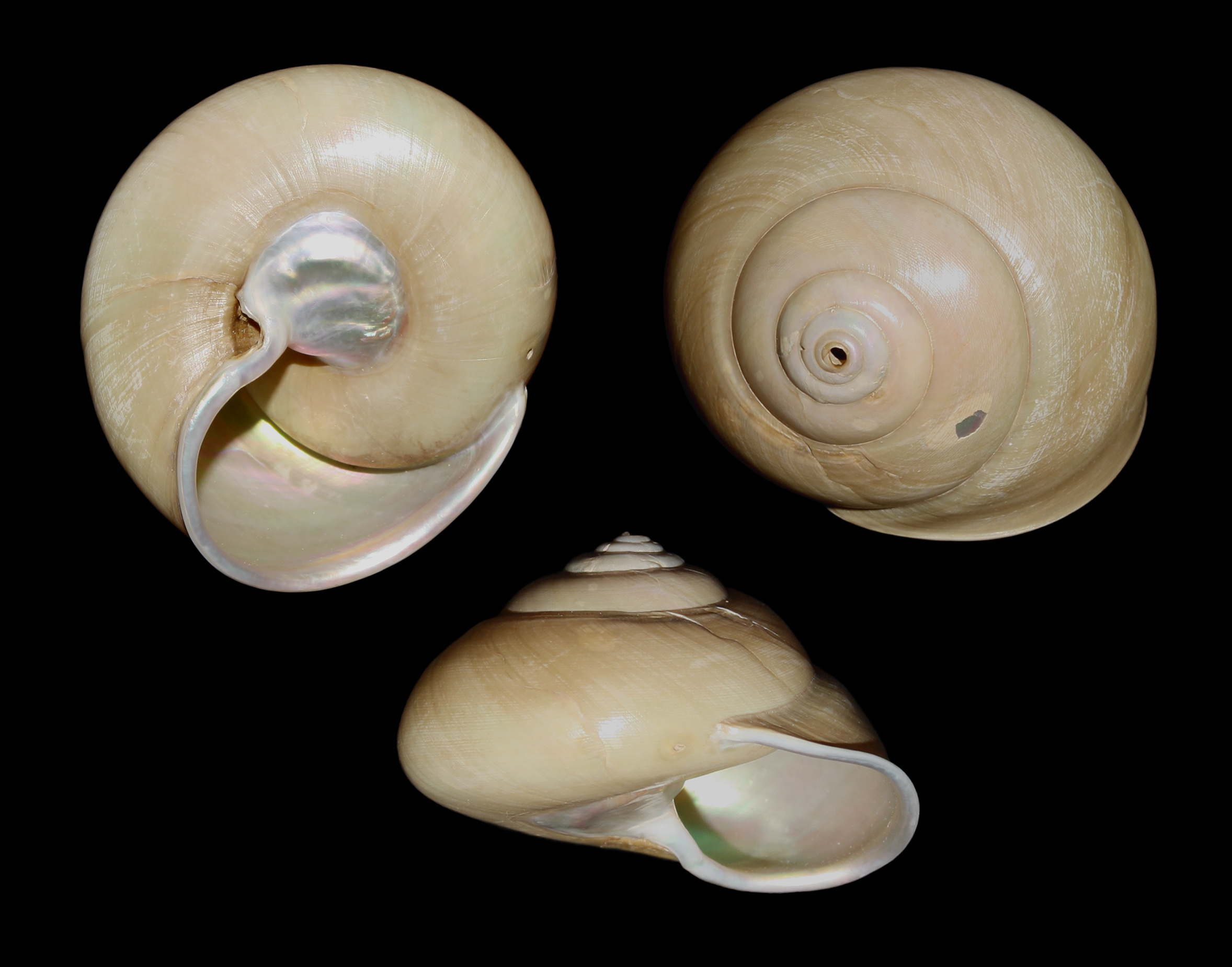 Gaza olivacea Quinn, 1991. Surinam, north of Paramaribo: 7 N, 54.5 W, at 370 meters. fresh dead specimen. 36 mm width.